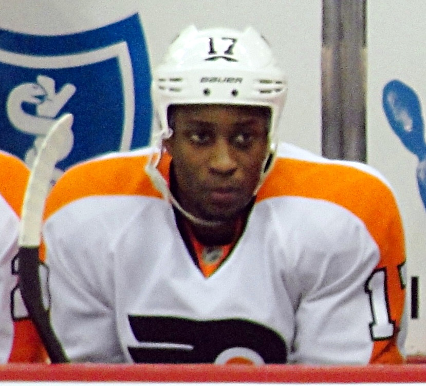 Wayne Simmonds of the Philadelphia Flyers during a game against the Pittsburgh Penguins, December 29, 2011 at Consol Energy Center in Pittsburgh, PA.